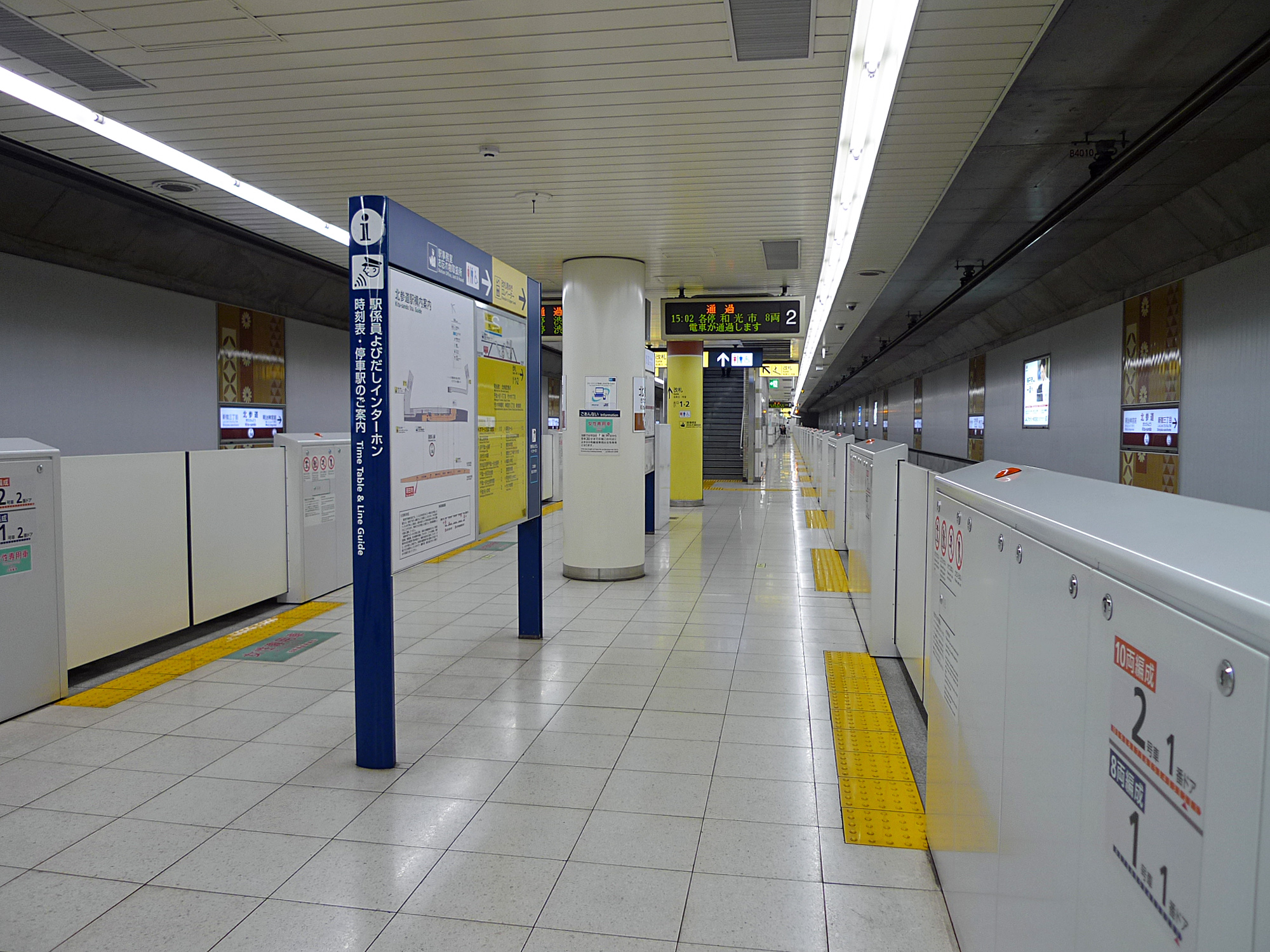 Kita-sando station platform,Tokyo Metro Fukutoshin Line.